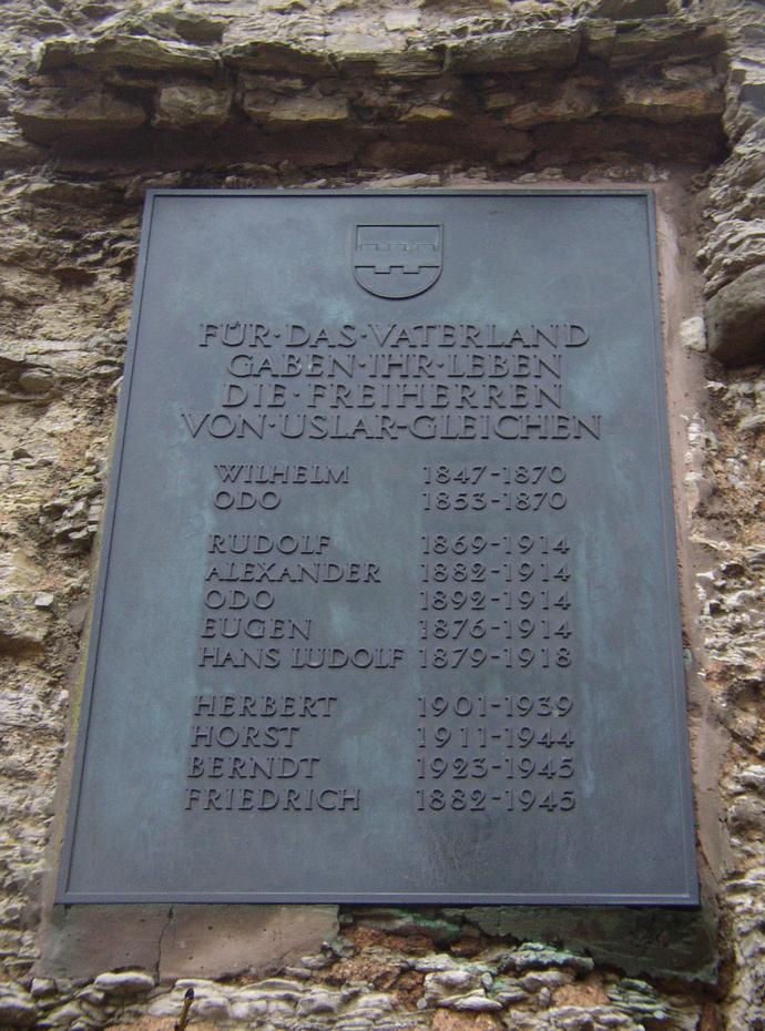 Memorial plaque in Gleichen in Lower Saxony, Germany